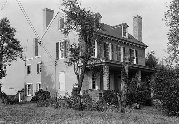 Stonum — Ninth & Washington Streets (New Castle County, Delaware) - (cropped). Historic American Buildings Survey—HABS image.